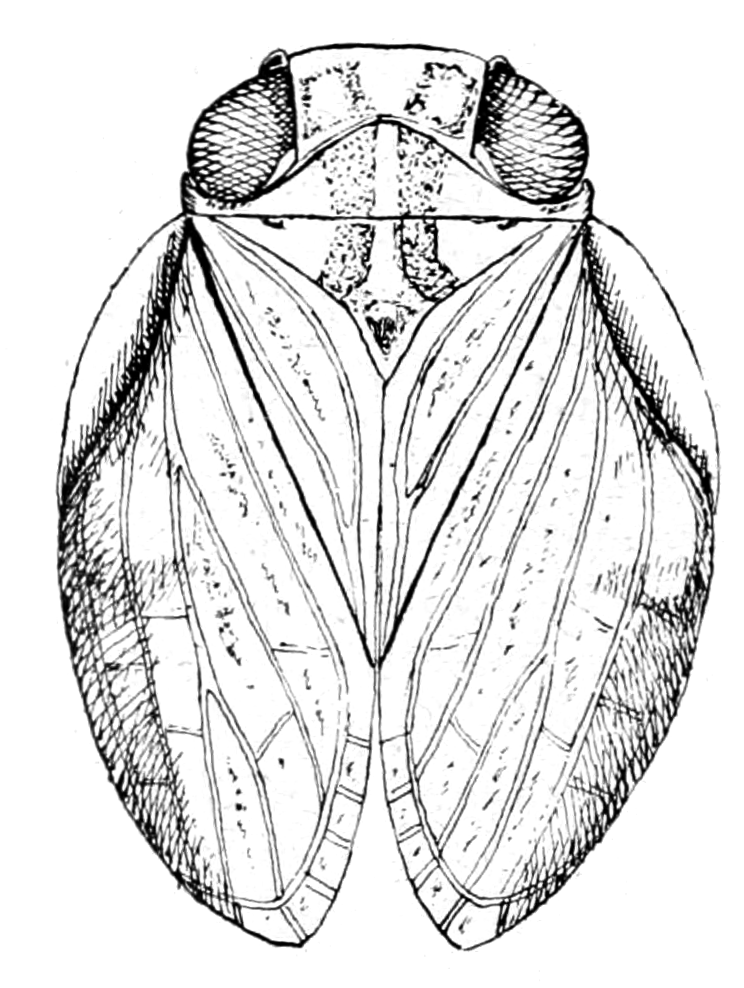 Female Agalmatium abruptum (=Hysteropterum abruptum), dorsal view.